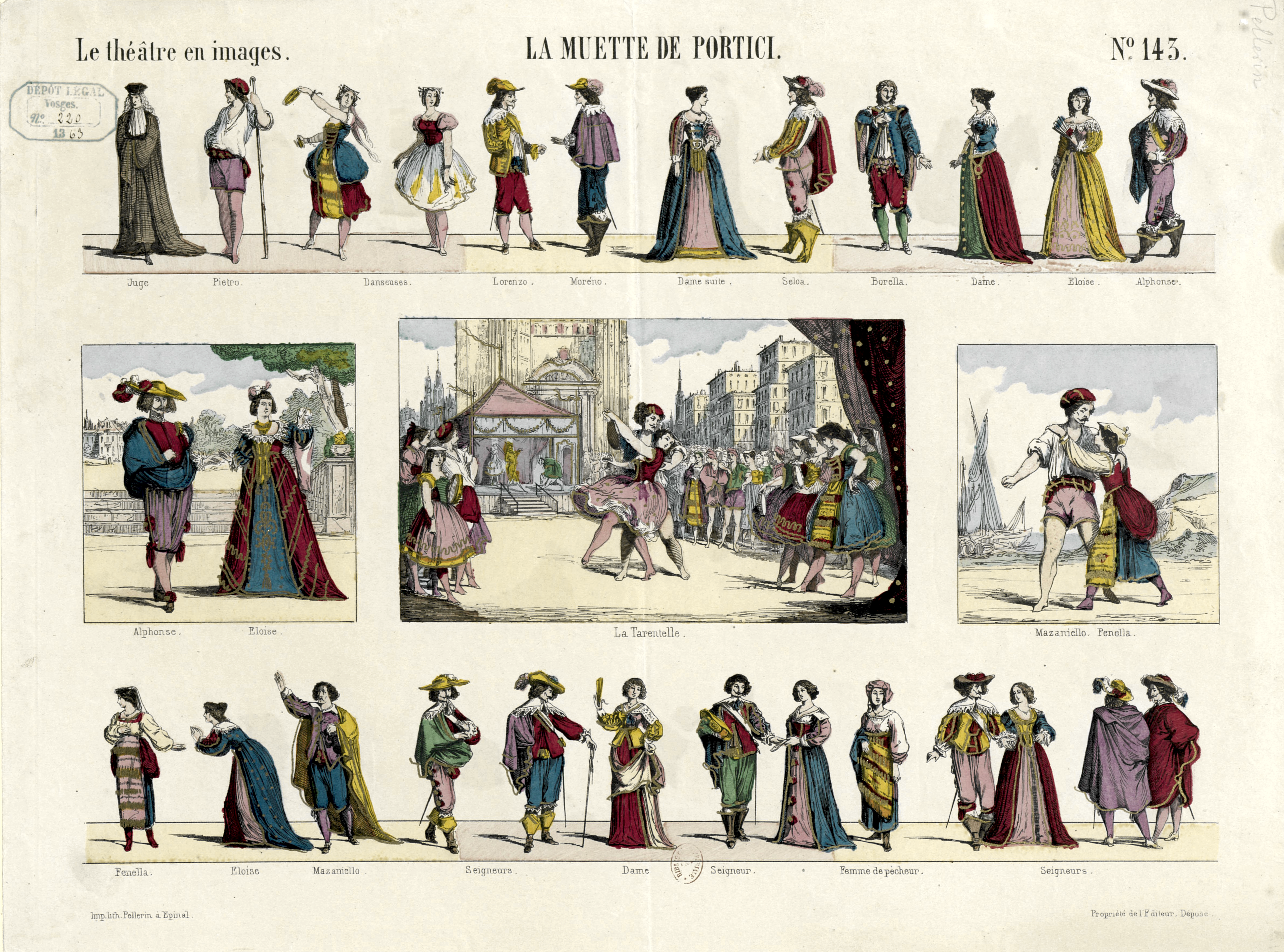 Characters of La muette de Portici by Daniel Auber with a libretto by Germain Delavigne, revised by Eugène Scribe (1828).